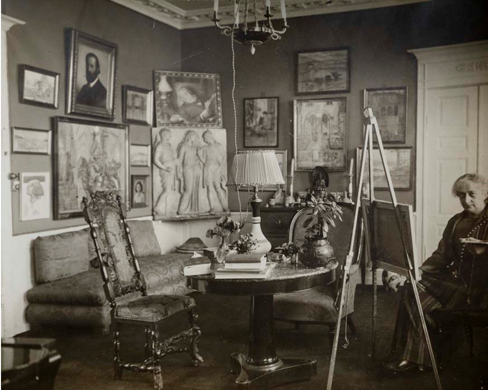 Marie Henriques in the living room of her apartment on the second floor on Frederiksholms Kanal 20 in Copenhagen, Denmark. She lived there from 1916.103+s